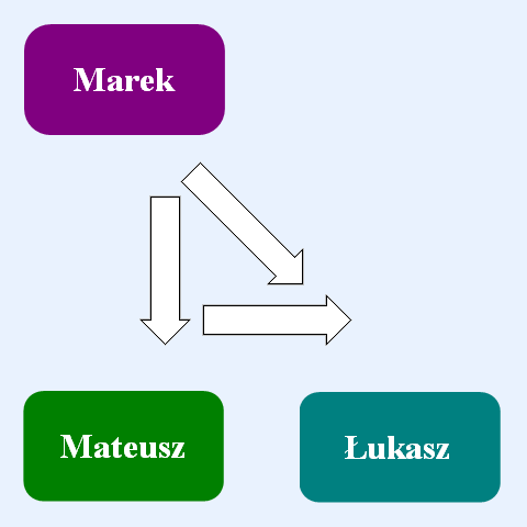 Synoptic Problem according to Wilke